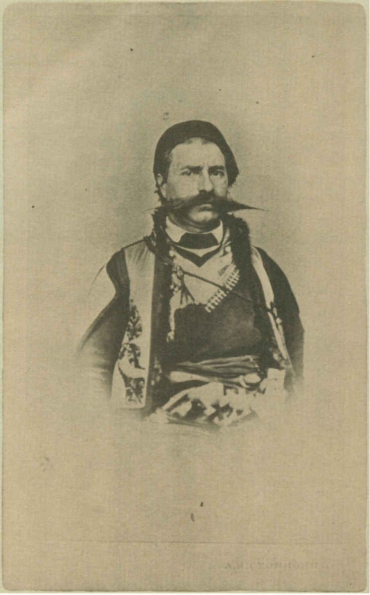 Photo of Panayot Hitov